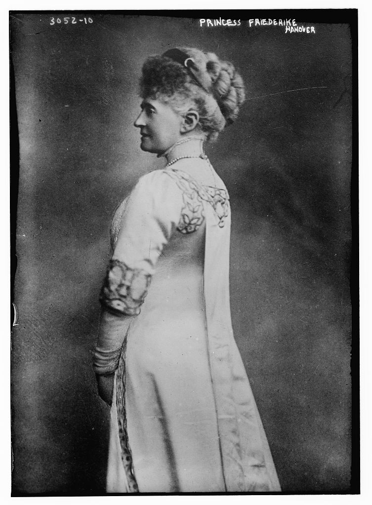 Princess Frederica of Hanover circa 1915 (LOC) Bain News Service,, publisher. Princess Frederike Hanover [between ca. 1910 and ca. 1915] 1 negative : glass ; 5 x 7 in. or smaller. Notes: Title from unverified data provided by the Bain News Service on the negatives or caption cards. Forms part of: George Grantham Bain Collection (Library of Congress). Format: Glass negatives. Repository: Library of Congress, Prints and Photographs Division, Washington, D.C. 20540 USA, General information about the Bain Collection is available at Persistent URL: Call Number: LC-B2- 3052-10